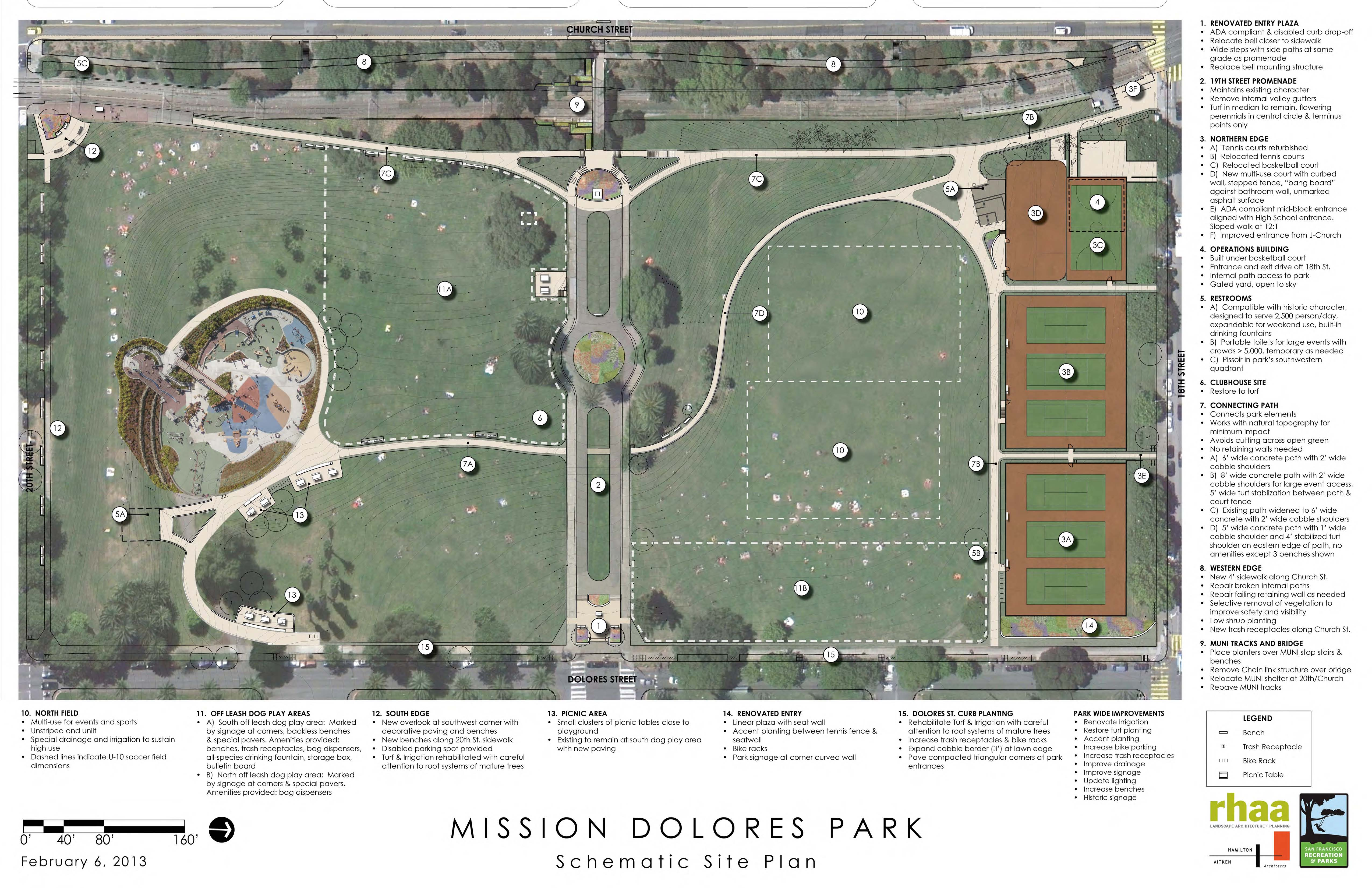 Map outlining renovation components